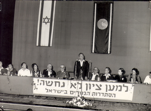 Yitzhak Rabin Speaking at Teacher\'s conference